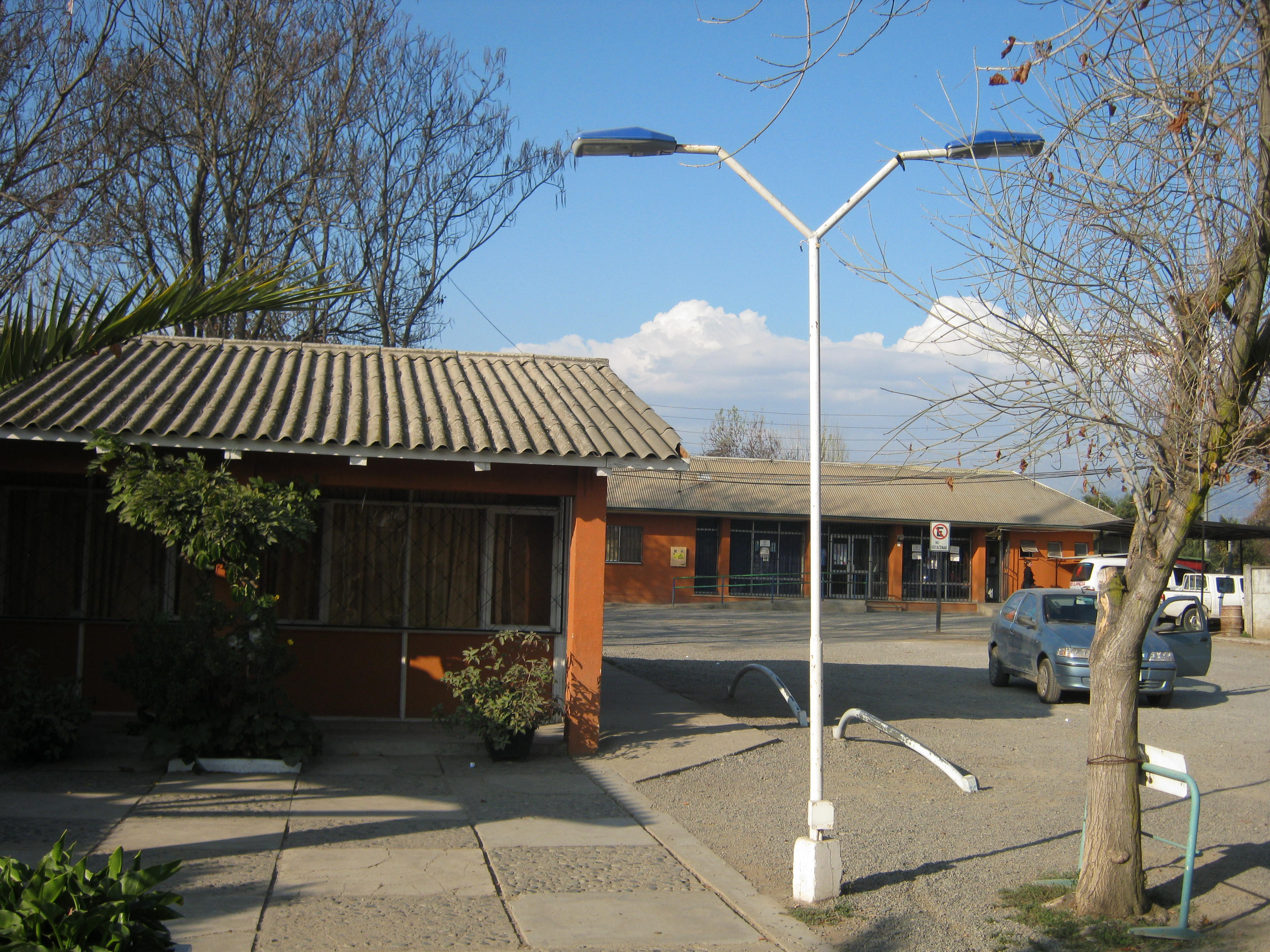 Municipality of Codegua